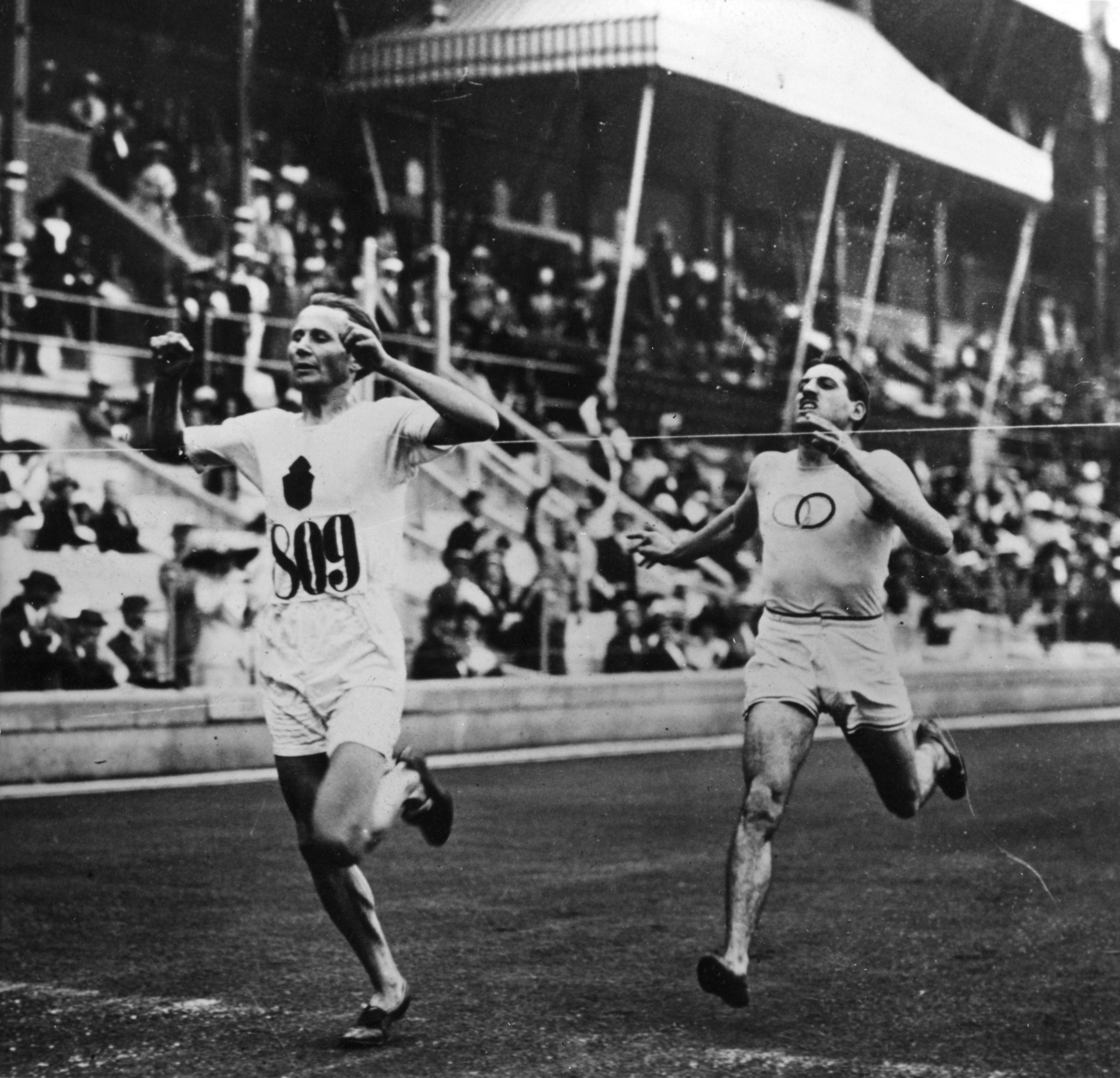 Finish of the men's 5000 metre final at the 1912 Summer Olympics. Hannes Kolehmainen (left) vs. Jean Bouin